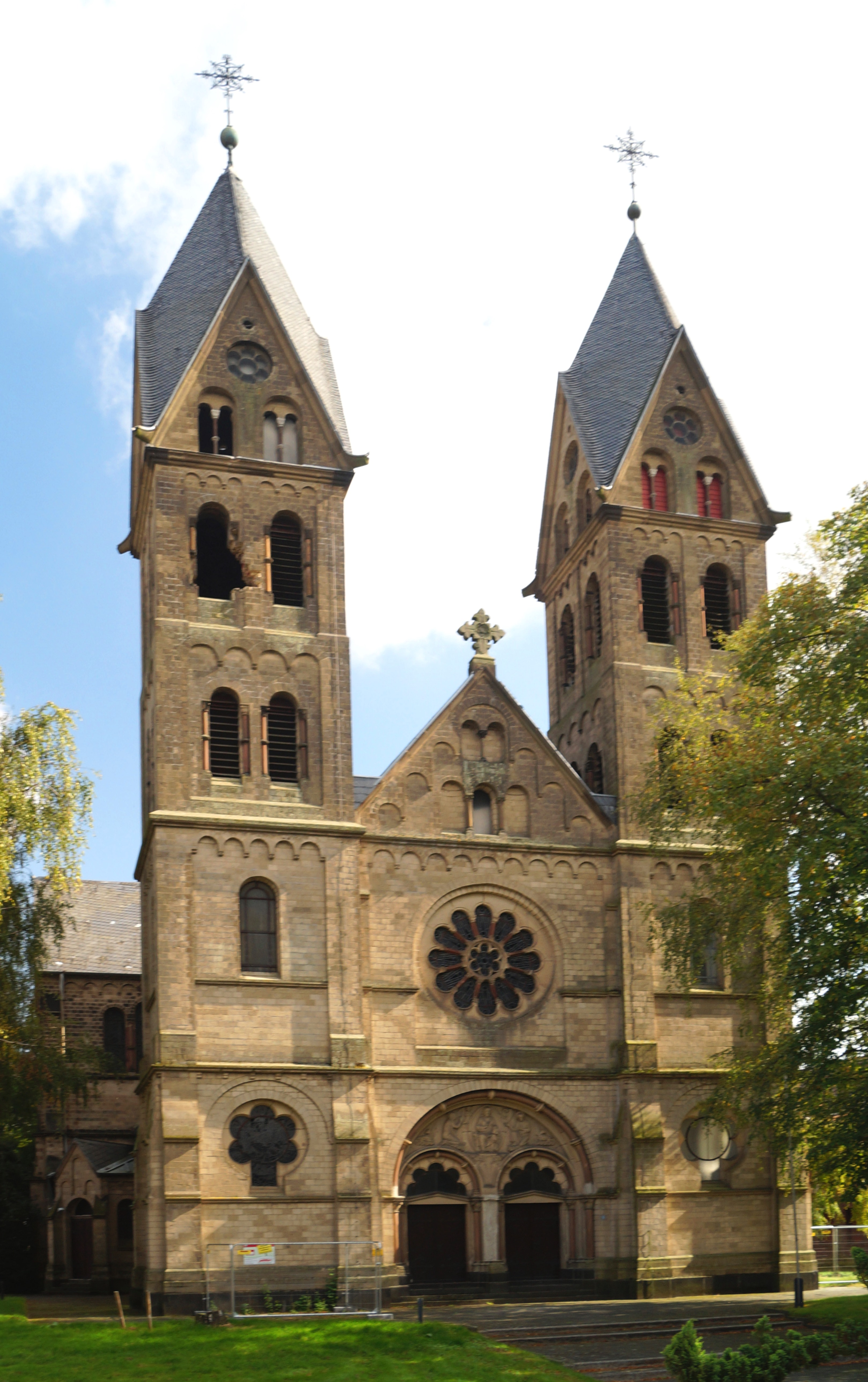 St. Lambertus Immerath (Erkelenz), 2013 desecrated, is part of the Garzweiler II brown coal strip mining. The church building was built from 1888 to 1891 according to plans of the Cologne architect in a "neo-Romanesque architectural style" Erasmus Schüller. The Church was deconsecrated on 13 October 2013. The handover to RWE Power AG, the operator of the Rhenish brown coal district, took place in April 2014. The church building is to be demolished now. A new chapel is built on the new village for the people. The church bells from the 15th and 17th centuries are to be converted to new Immerath. In the picture you can see that a sound hatch of the left tower was broken out for the expansion of the bells.